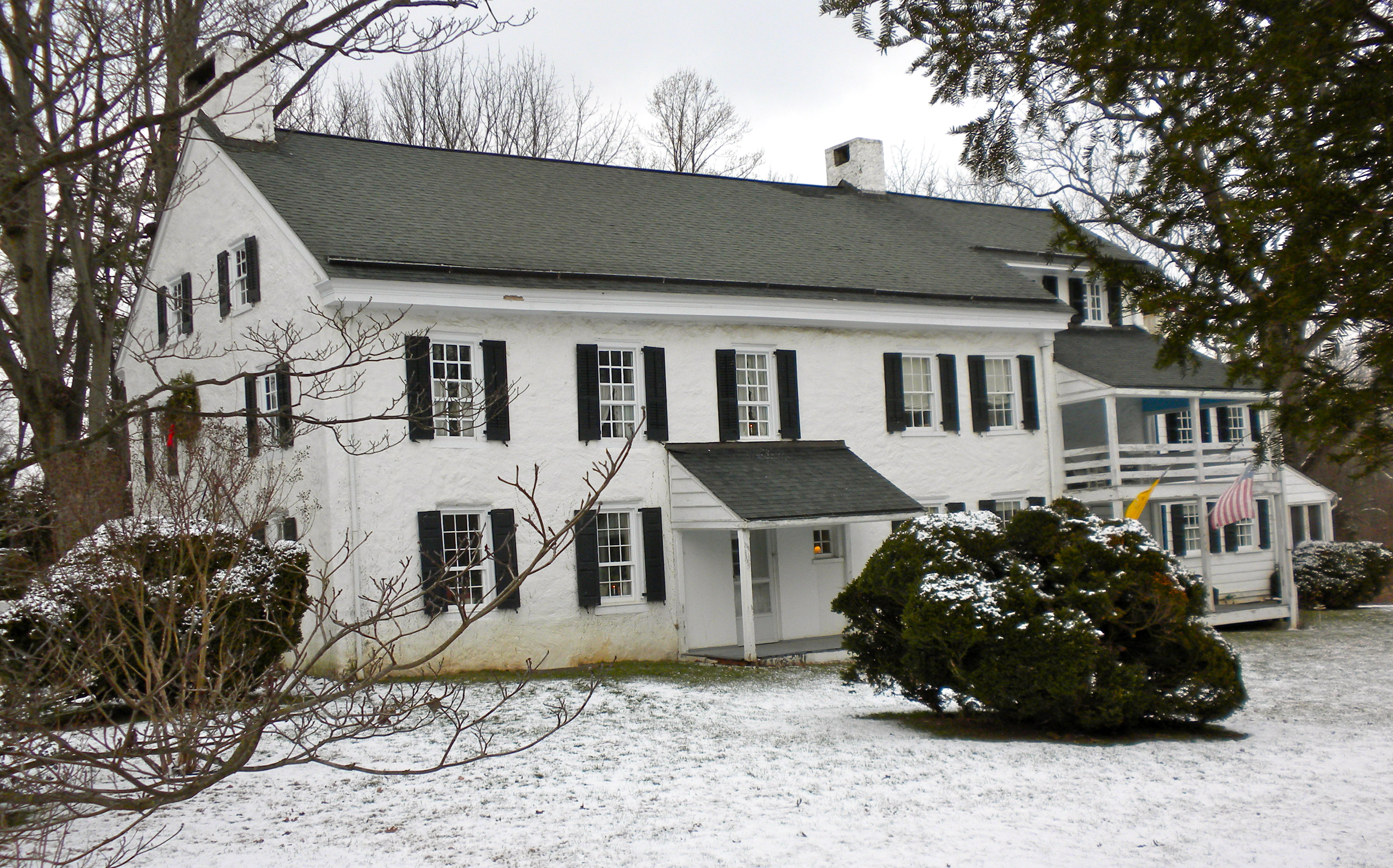 Joseph Walker House 274 Anthony Wayne Drive, Tredyffrin Township, Chester County, Pennsylvania (near Valley Forge) 40°4′36″N 75°26′0″W On NRHP. I donate this photo to the public domain